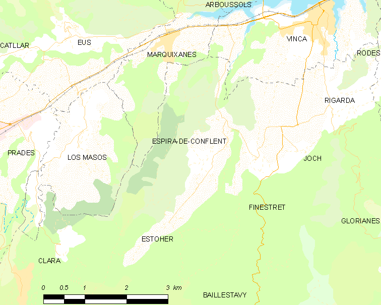 Map of French municipality